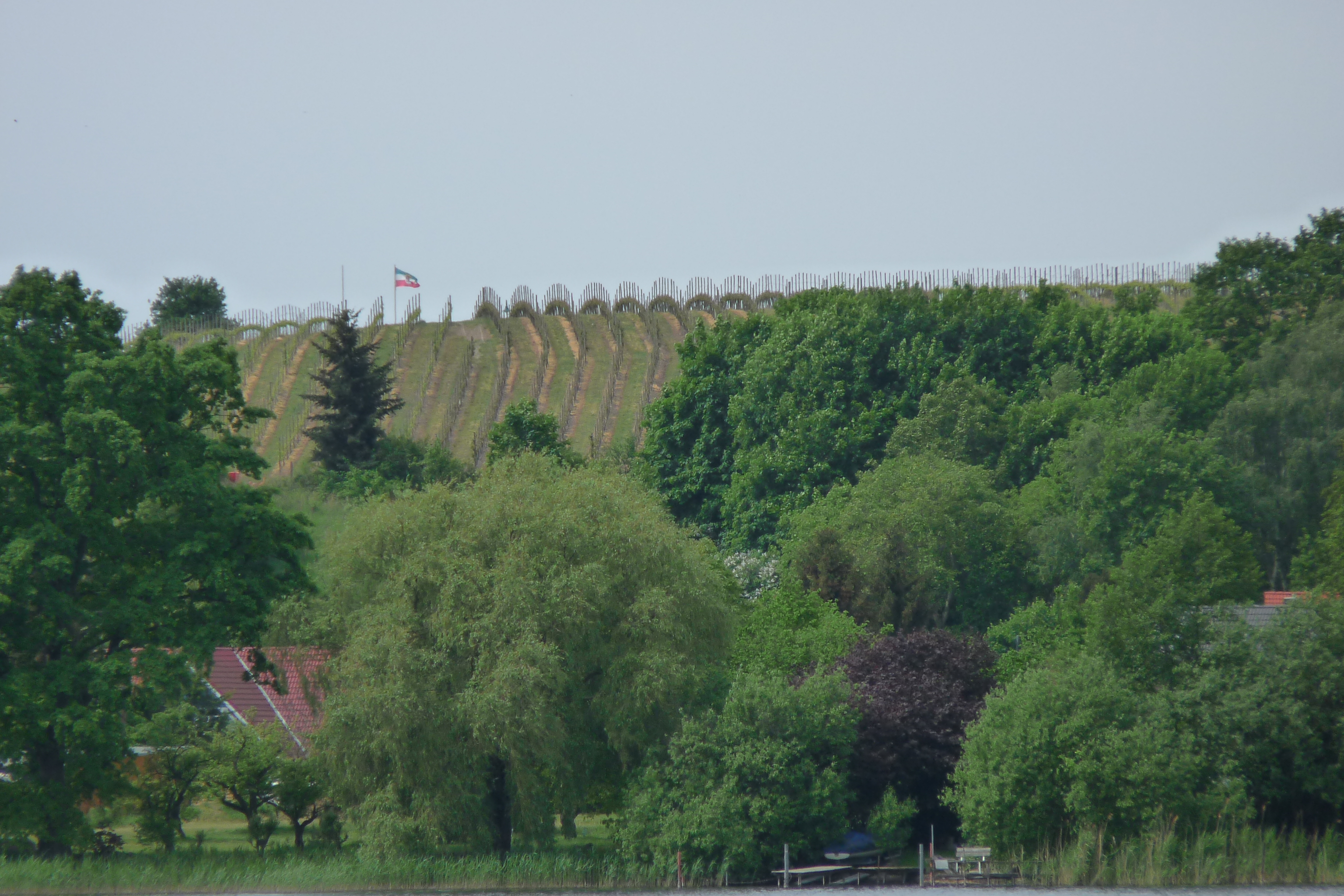 The vineyard Quail's Mountain of Werder lies geographically with Latitude of 52 degree and 22 minutes north far to the north of the usual wine-growing areas of Europe. In 1991 this vineyard was taken up as a Großlagenfreie Einzellage in the Weinanbaugebiet Saale-Unstrut (winegrowing area at the rivers Saale and Unstrut) and was recognised by the EU. It is with it the most northern registered position for quality-tested wine cultivation (QbA) in Europe and the World.